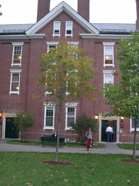 Abbot Hall (Phillips Exeter Academy)